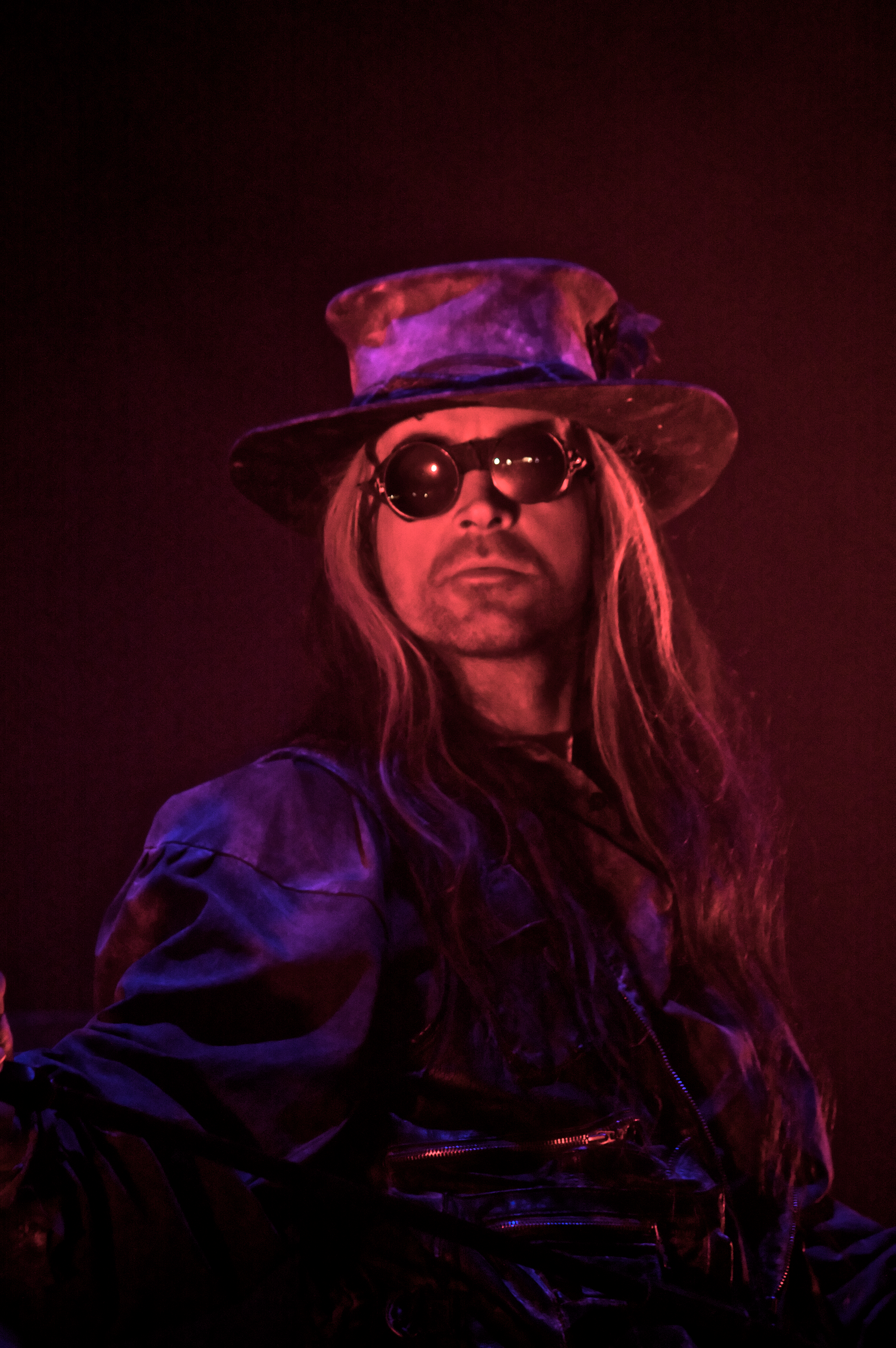 Carl McCoy, Lead Singer of Fields of the Nephilim. Taken at the Agra Hall, WGT 2008 in Leipzig Germany